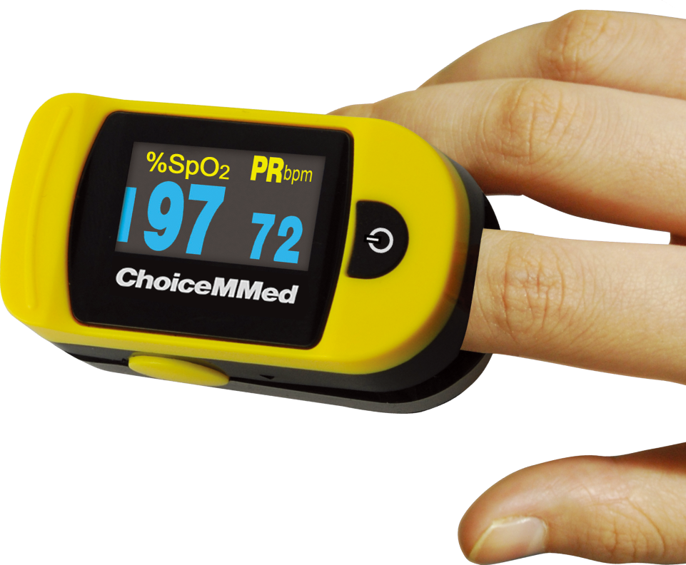 A finger mounted pulse oximeter with pulse bar taking measurement through the fingernail.